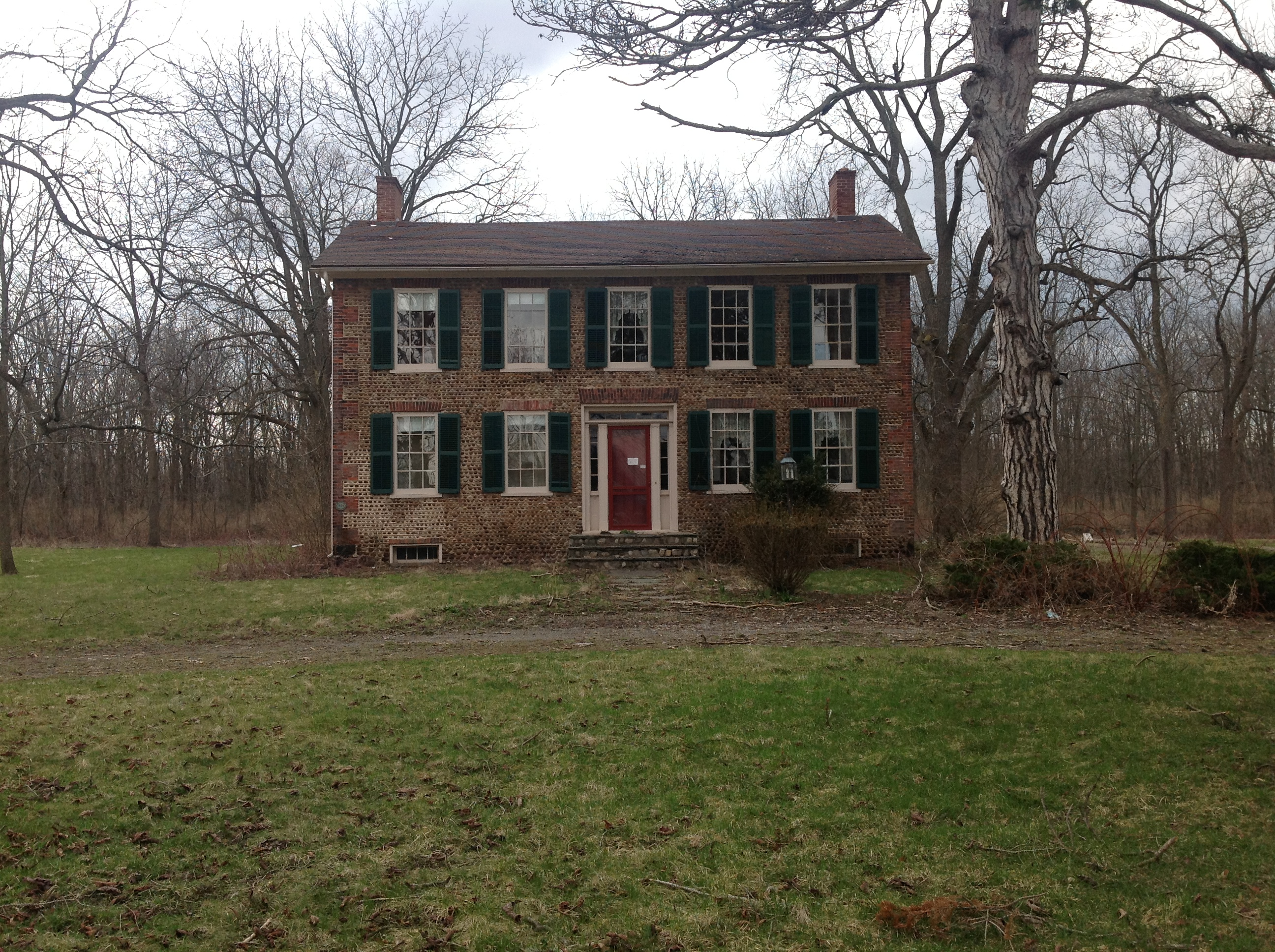 Charles Bullis Cobblestone house in Macedon, NY